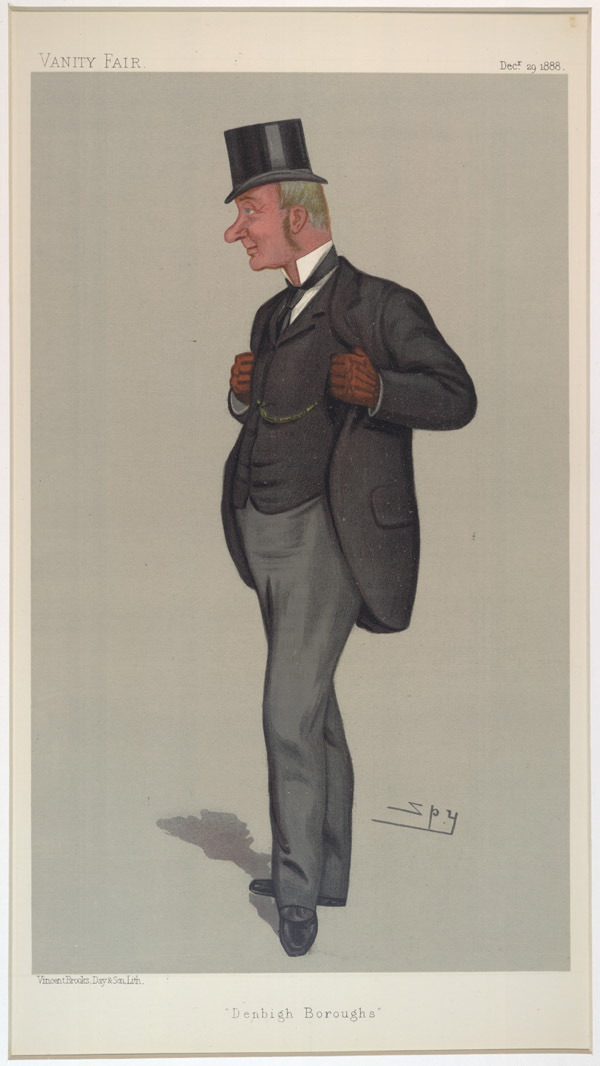 Statesmen No.556: Caricature of The Hon George Thomas Kenyon JP MP. Caption reads: "Denbigh Boroughs"